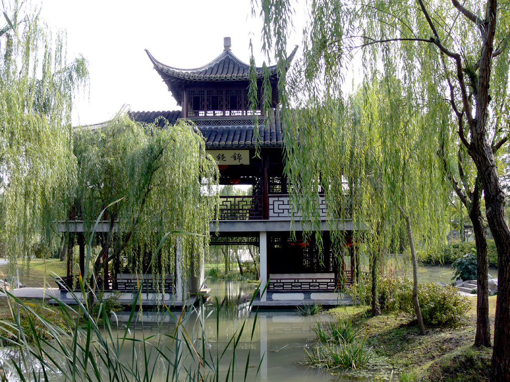 扬州瘦西湖四桥烟雨园锦镜阁,The Jinjingge bridge in the Thin West Lake, Yangzhou